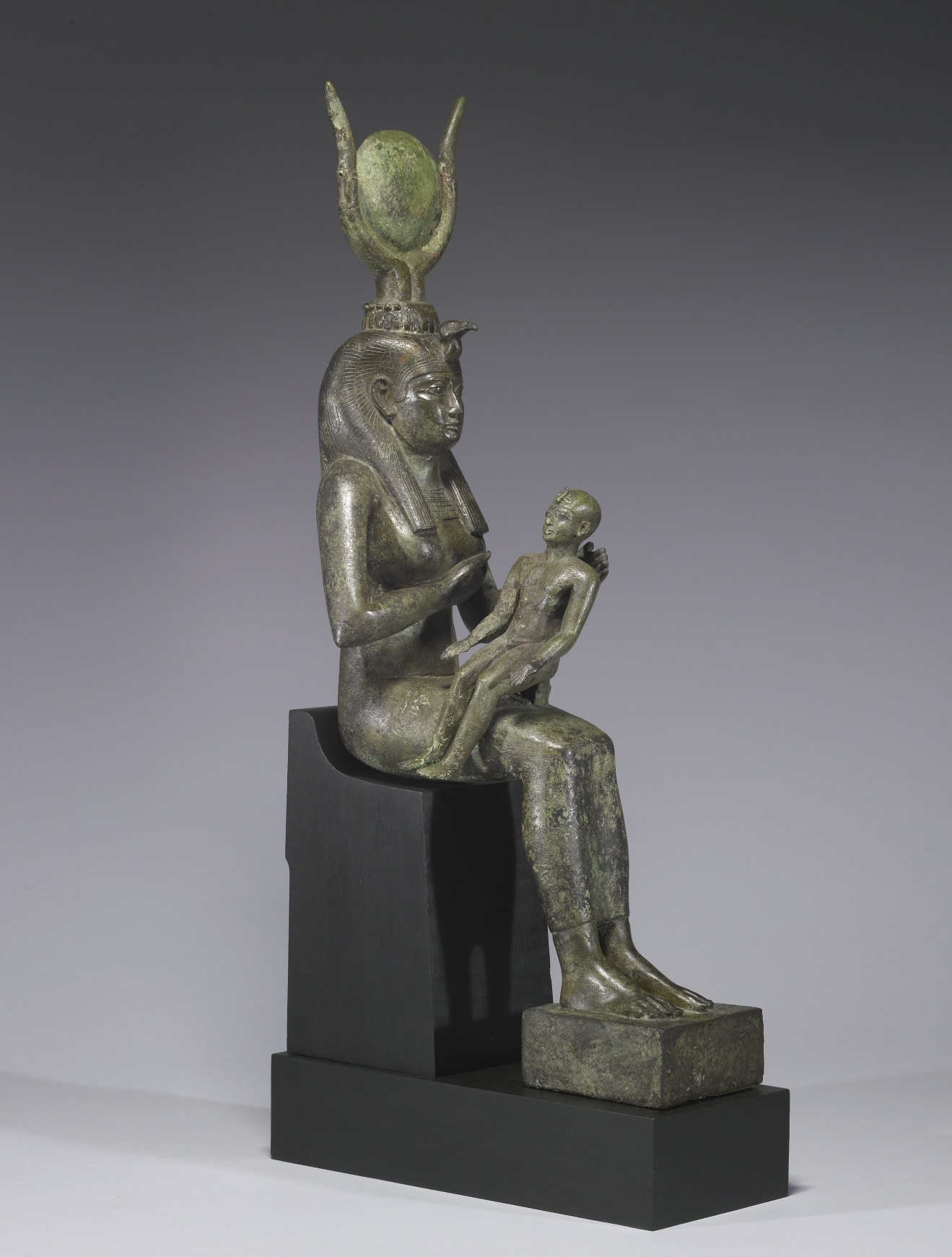 For the ancient Egyptians, the goddess Isis was the model of the loyal wife and mother, as well as a powerful magician. She was the wife of the god Osiris and the mother of Horus. Just as the king of Egypt was associated with Horus in life and Osiris in death, queens of Egypt were linked with Isis, and their visual representations have similarities with the goddess. For example, both may be depicted wearing the vulture headdress shown here. The crown composed of a sun-disk and cow horns originally belonged to Hathor, but was assimilated by Isis.